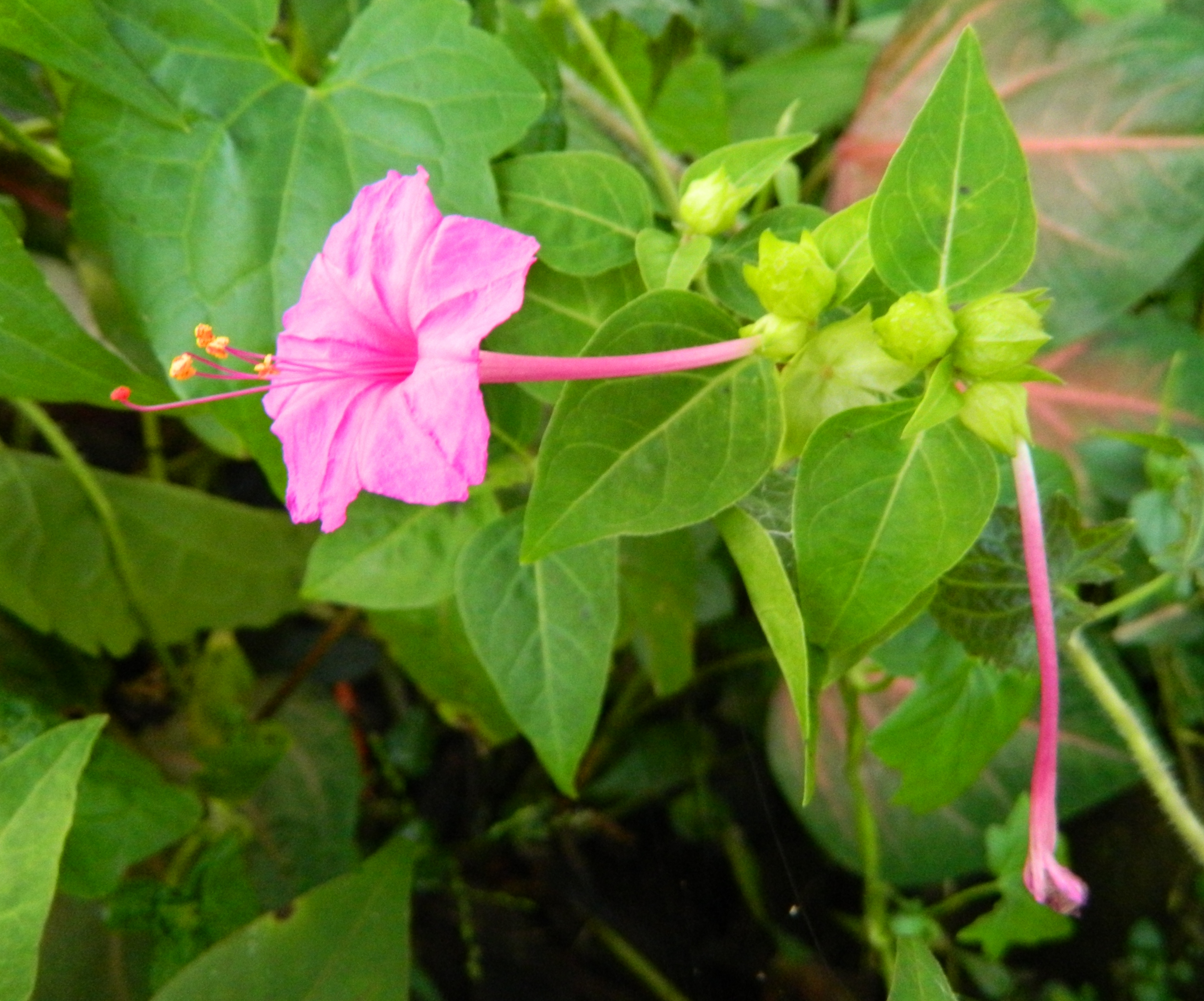 flower(nalumanypoovu)